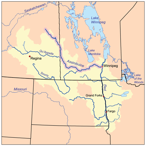 This is a map of the Red River of the North drainage basin, with the Assiniboine River highlighted. I, Karl Musser, created it based on USGS and Digital Chart of the World data.